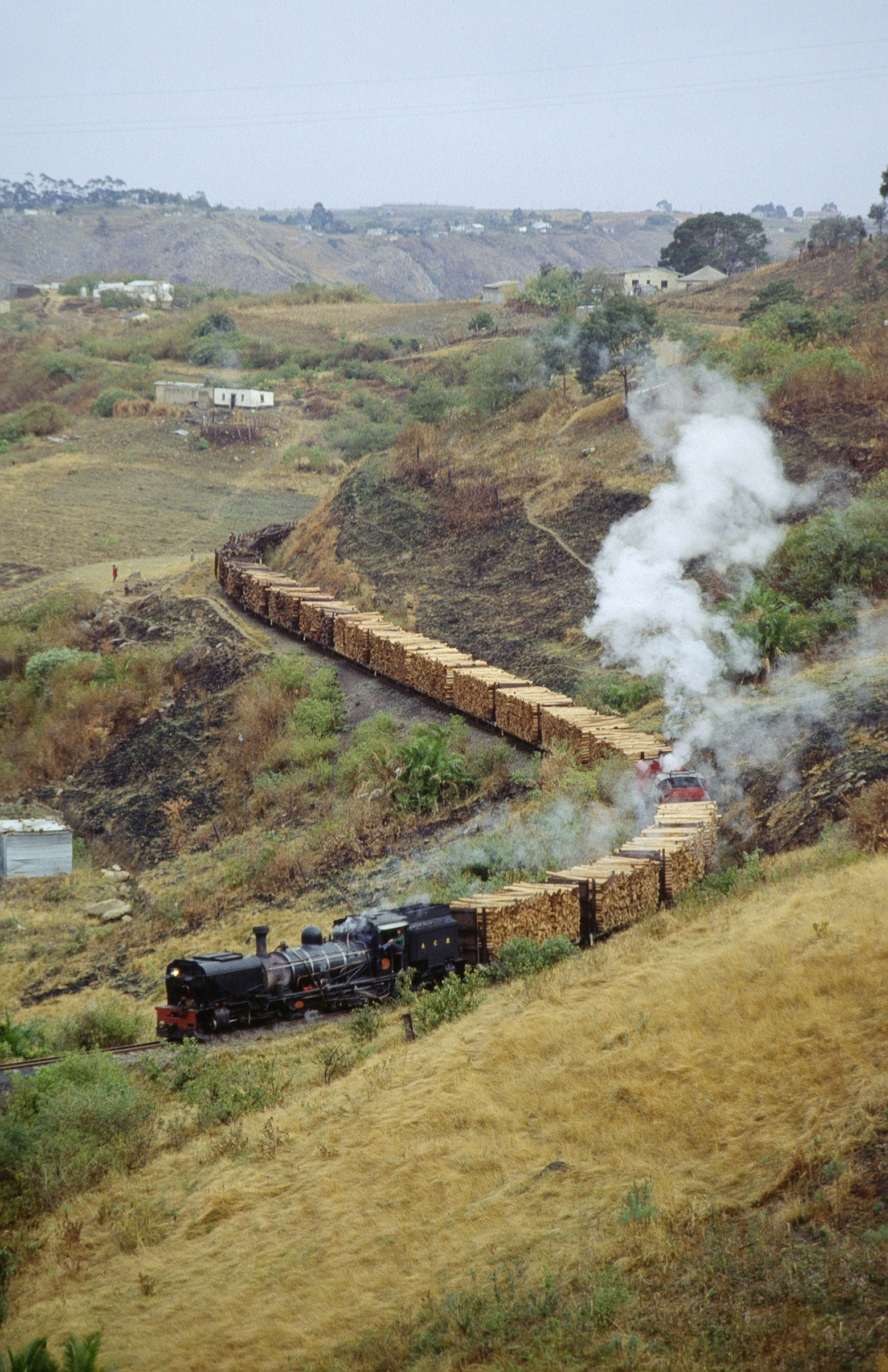 Alfred County Railway: A Goods train at Bomela siding rolling down the line to Port Shepstone. The leading locomotive is No 151 of the SAR class NGG16, the red locomotive is No 141 of the class NGG16A